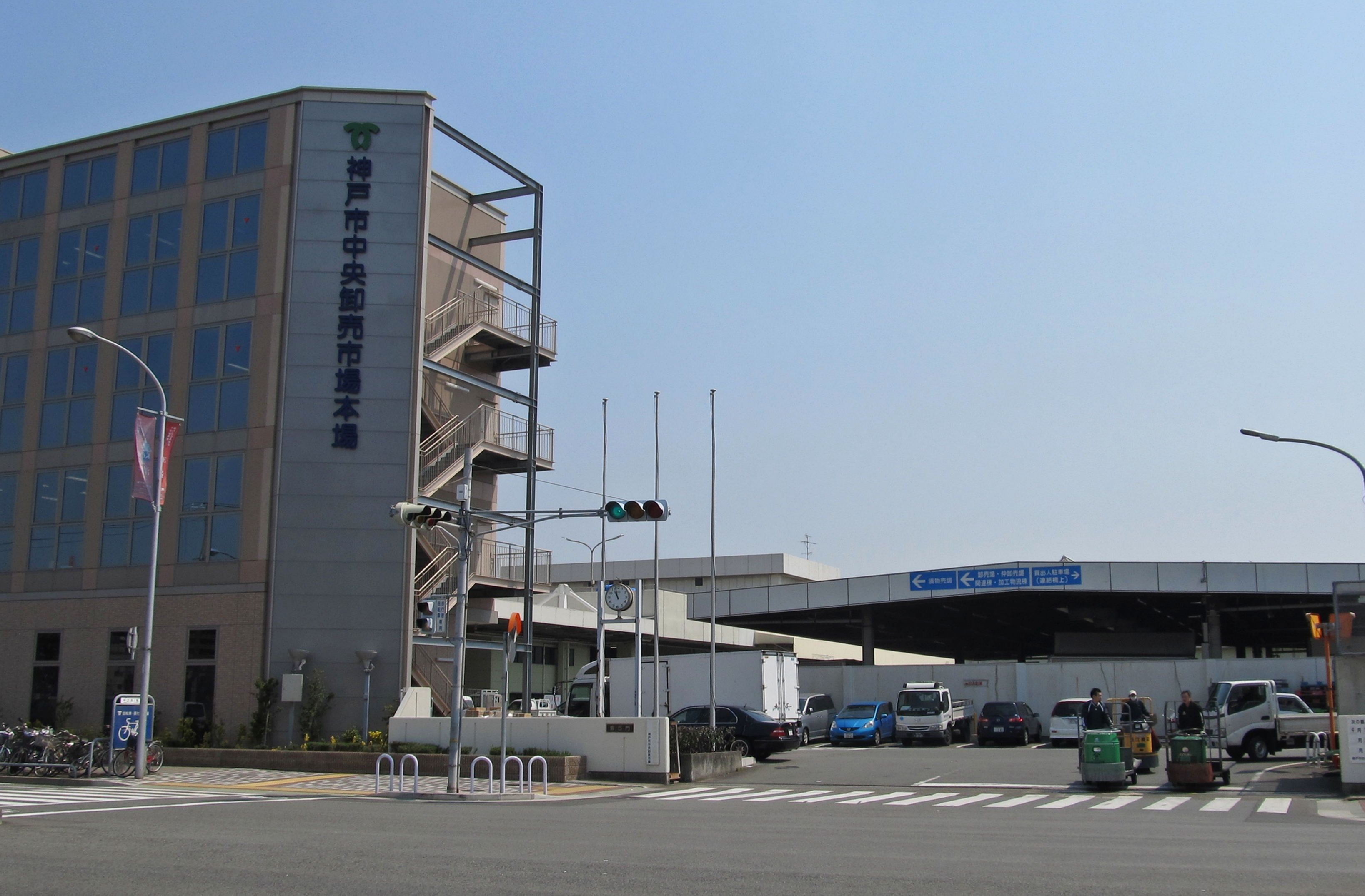 Kobe City Central Wholesale Market(Hyōgo-ku,Kobe,Hyogo,Japan)